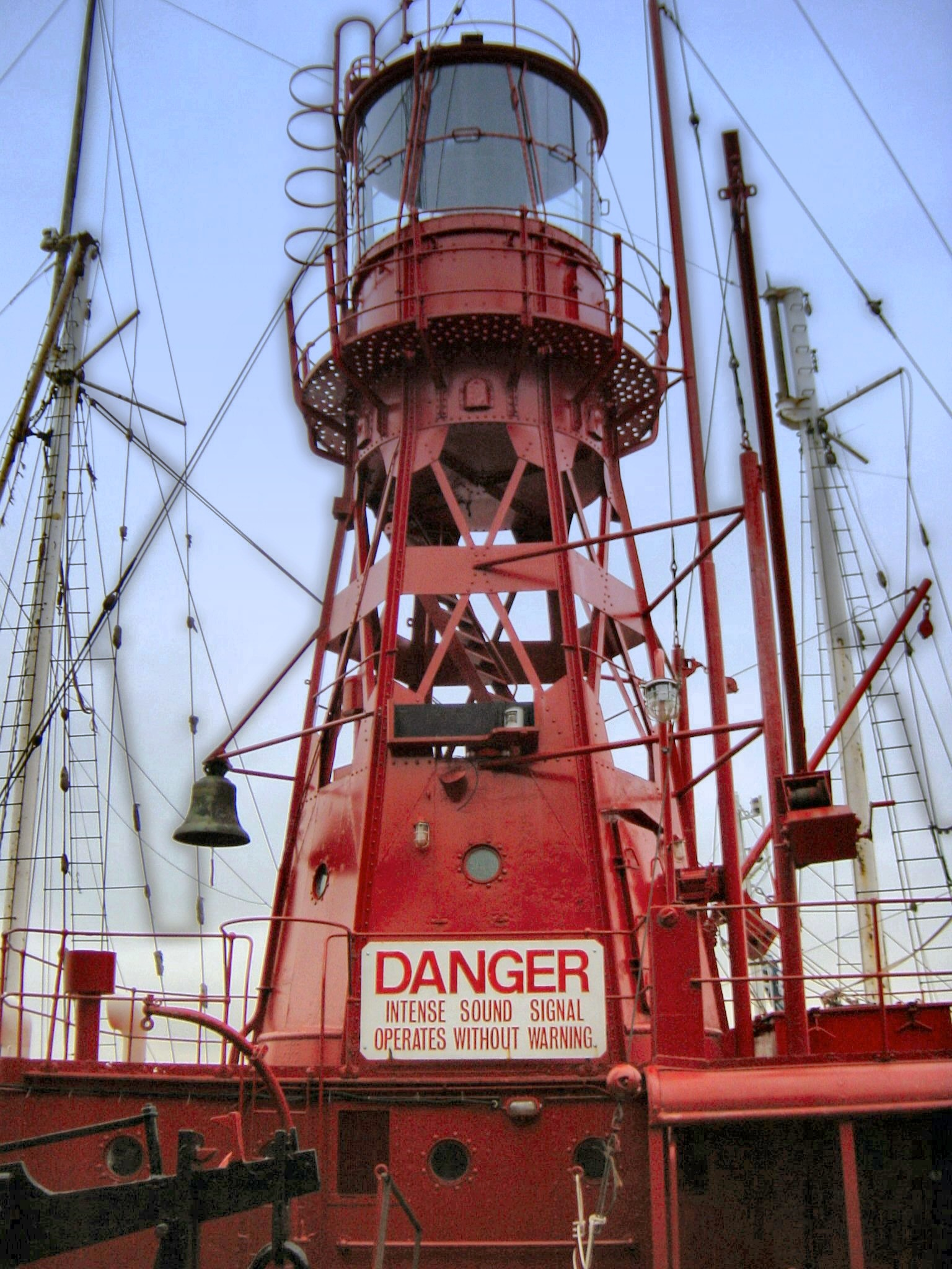 Detail of a laid up light ship in the port of Amsterdam.